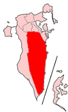 Map of Bahrain showing Ar Rifa' wa al Mintaqal al Janubiyah municipality. The municipalities were dissolved in 2002 and replaced with governorates.